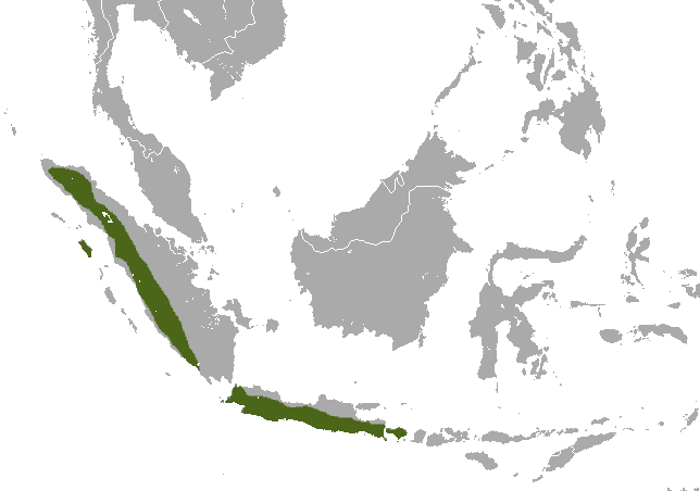 Horsfield's Treeshrew (Tupaia javanica) range